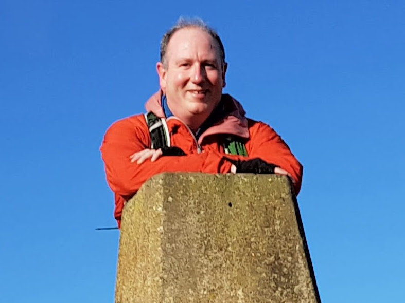 A photograph, taken by the subject whilst walking on Hadrian's Wall